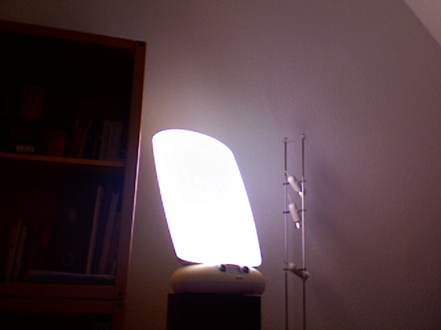 Light Therapy Lamp (in use), type Philips HF3319/01